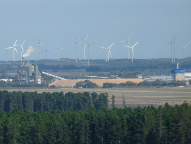 The Kimberly Clark mill at Tantanoola, South Australia with the Lake Bonney windfarm in the distance and pine trees in the foreground